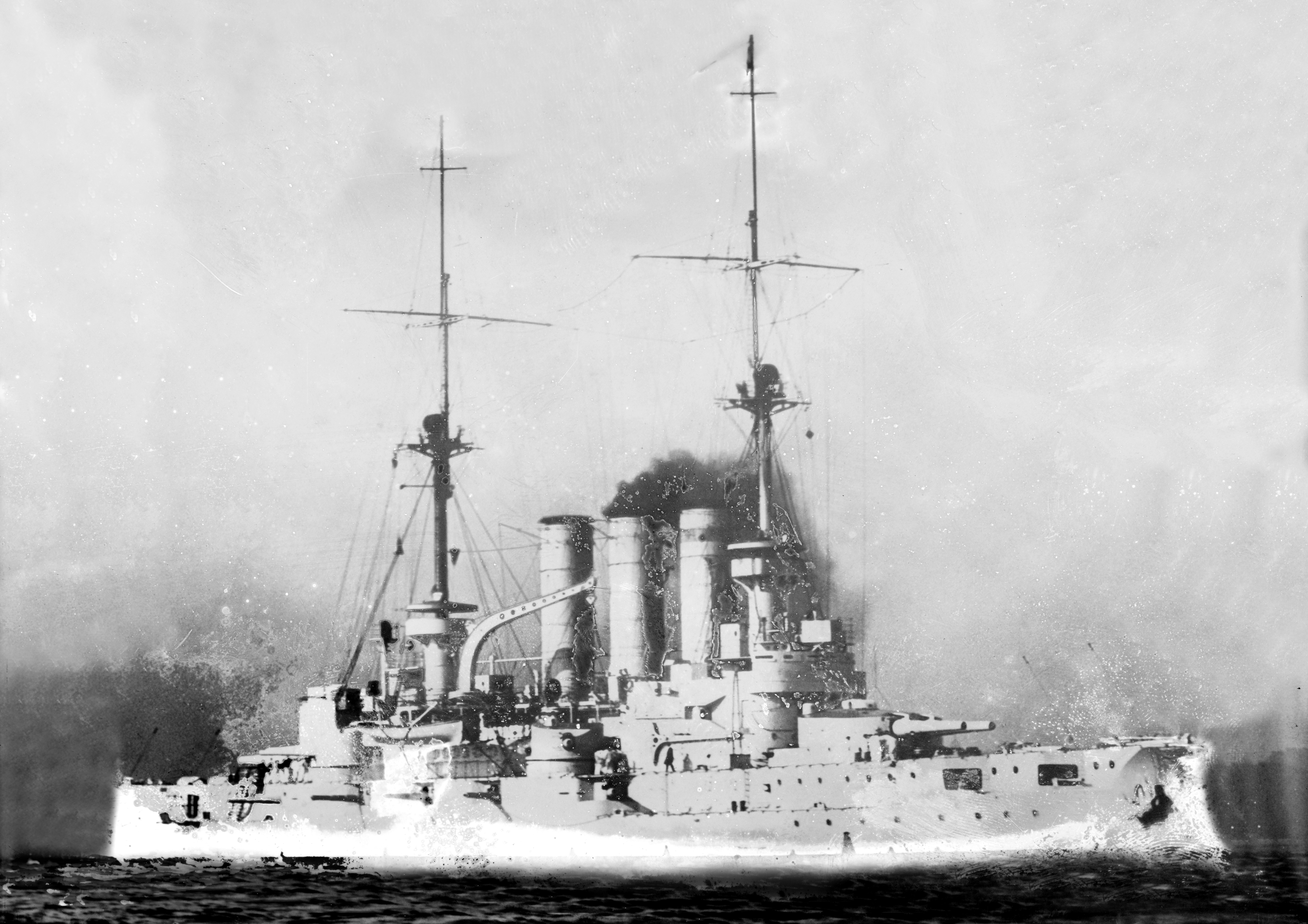 The German battleship SMS Lothringen underway at sea before 1914.